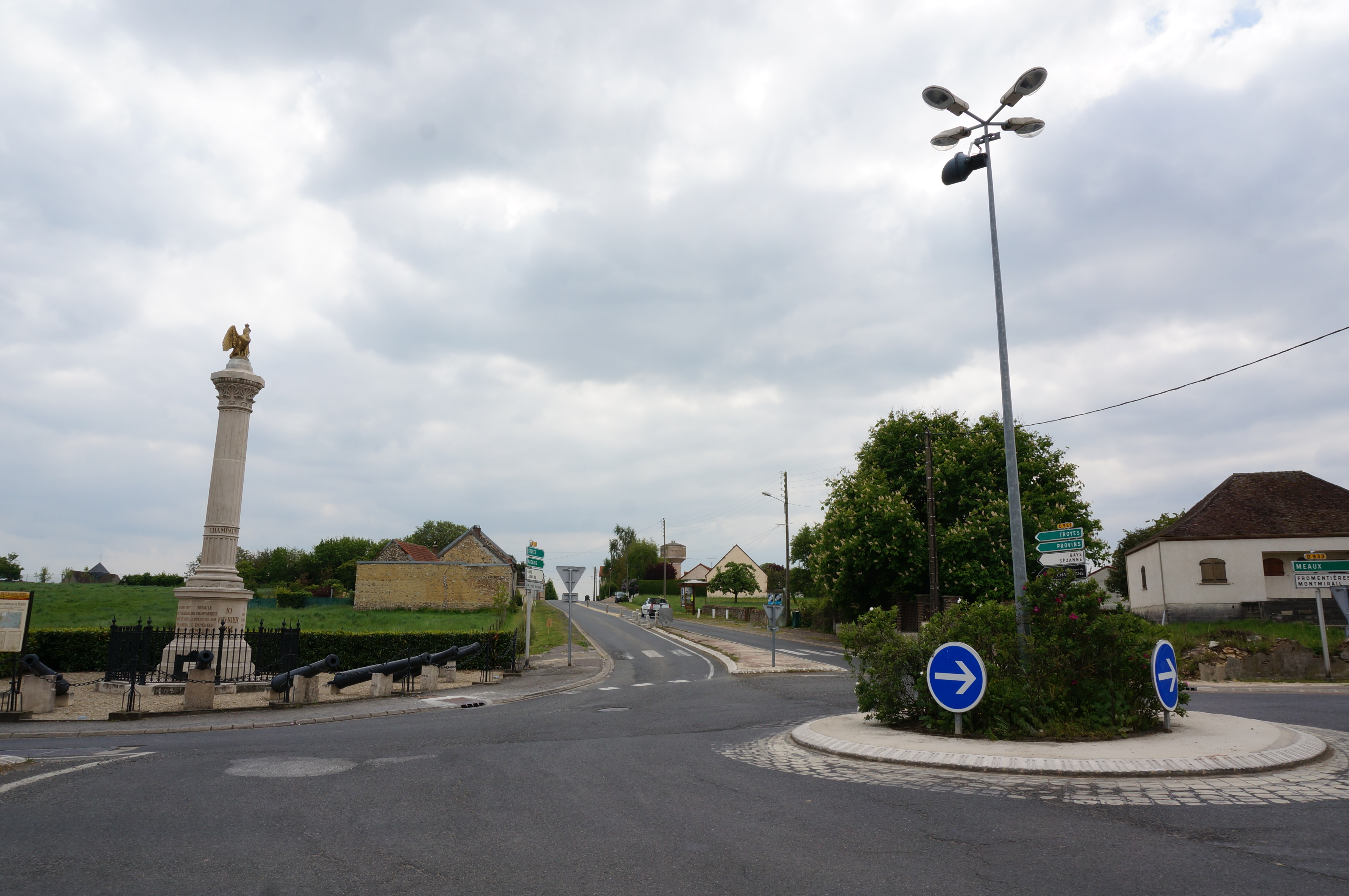 War memorial, battles Champaubert, Marchais-en-Brie, Montmirail